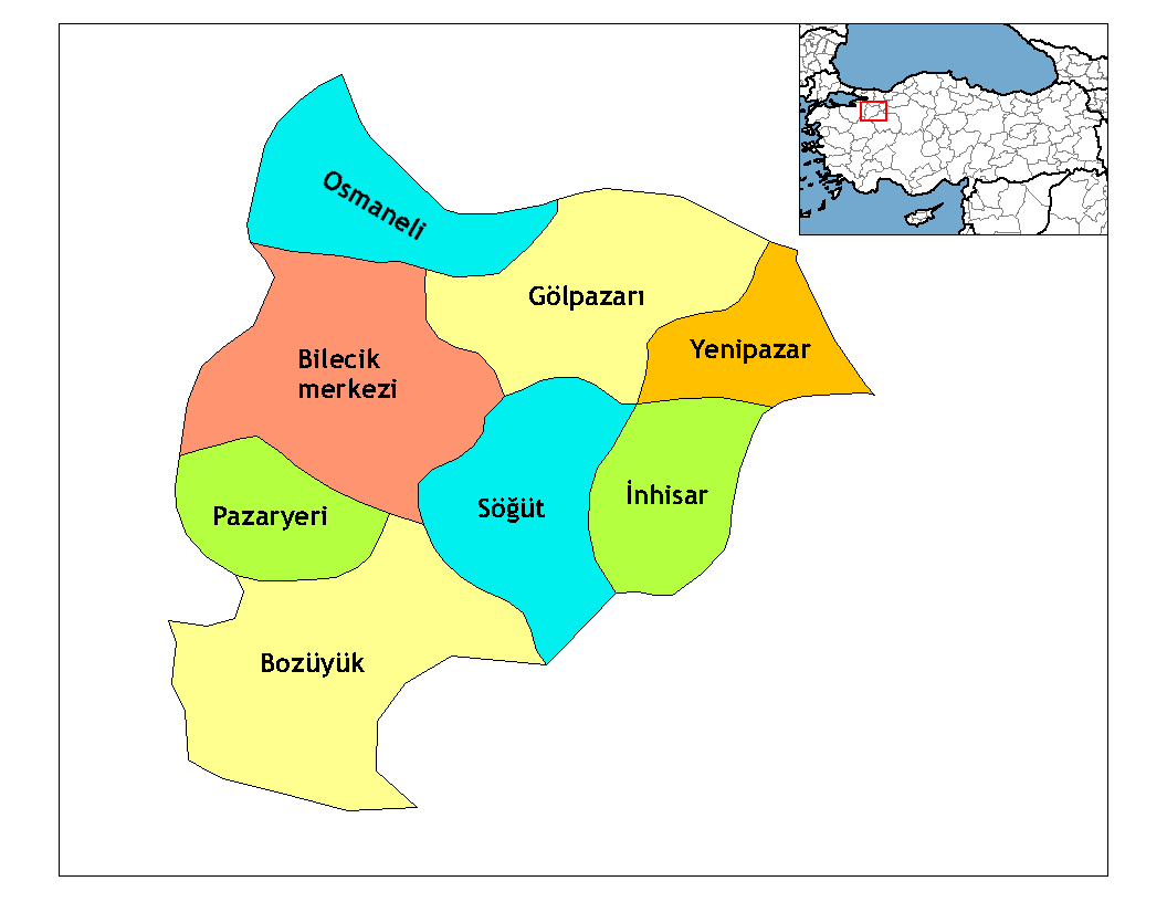 Map of the districts of Bilecik province in Turkey. Created by Rarelibra 18:56, 1 December 2006 (UTC) for public domain use, using MapInfo Professional v8.5 and various mapping resources. Edited by One Homo Sapiens Corrected text where İ,Ş,ı,ğ,or ş occurs in name. Source: [statoids-com]. Increased font size and enhanced color differences among adjacent districts.